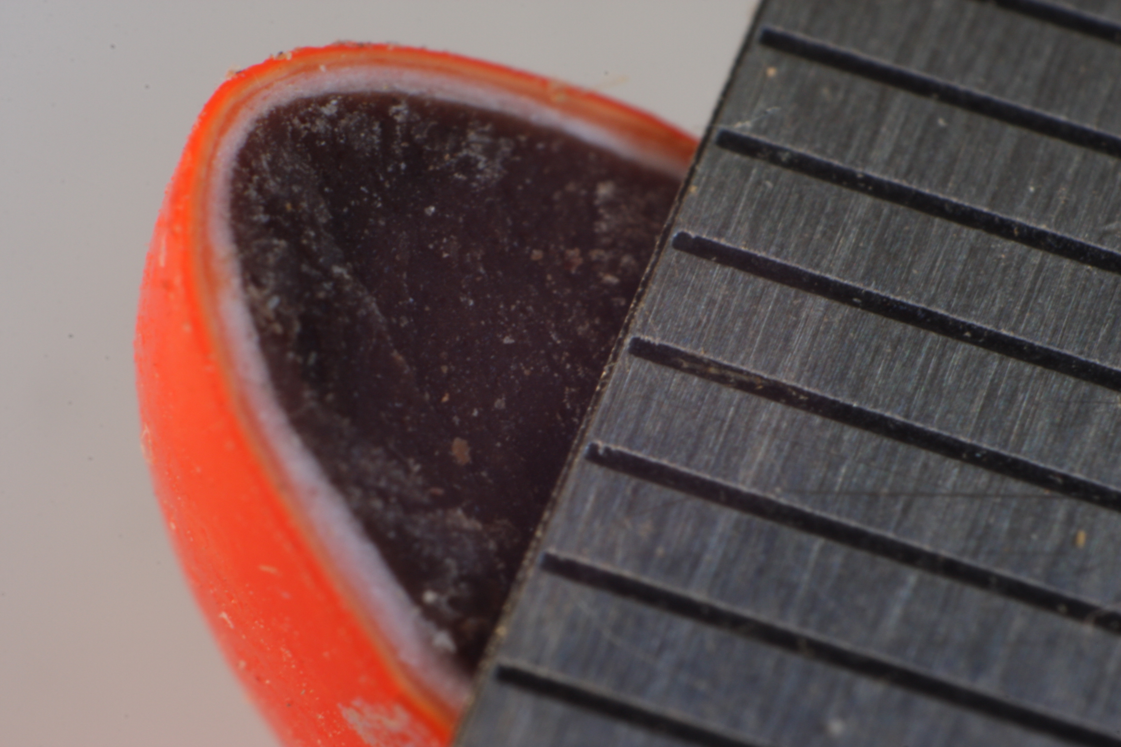 M&M chocolate candy in cross-section with millimeter ruler for scale. Shows layers of hard panned coating. Reversed lens macro with a Konica Hexanon AR 24mm lens at f/16. Focus could be better....